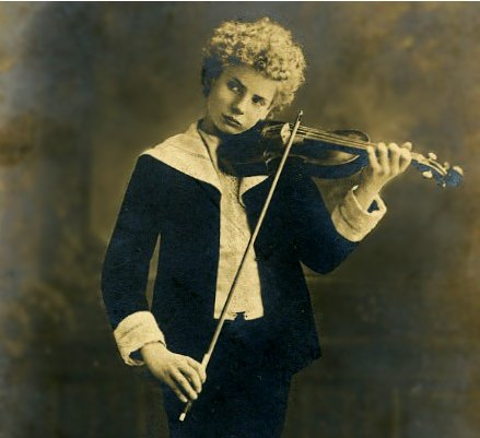 Commercially published stereoscopic photo of noted child prodigy, Florizel von Reuter